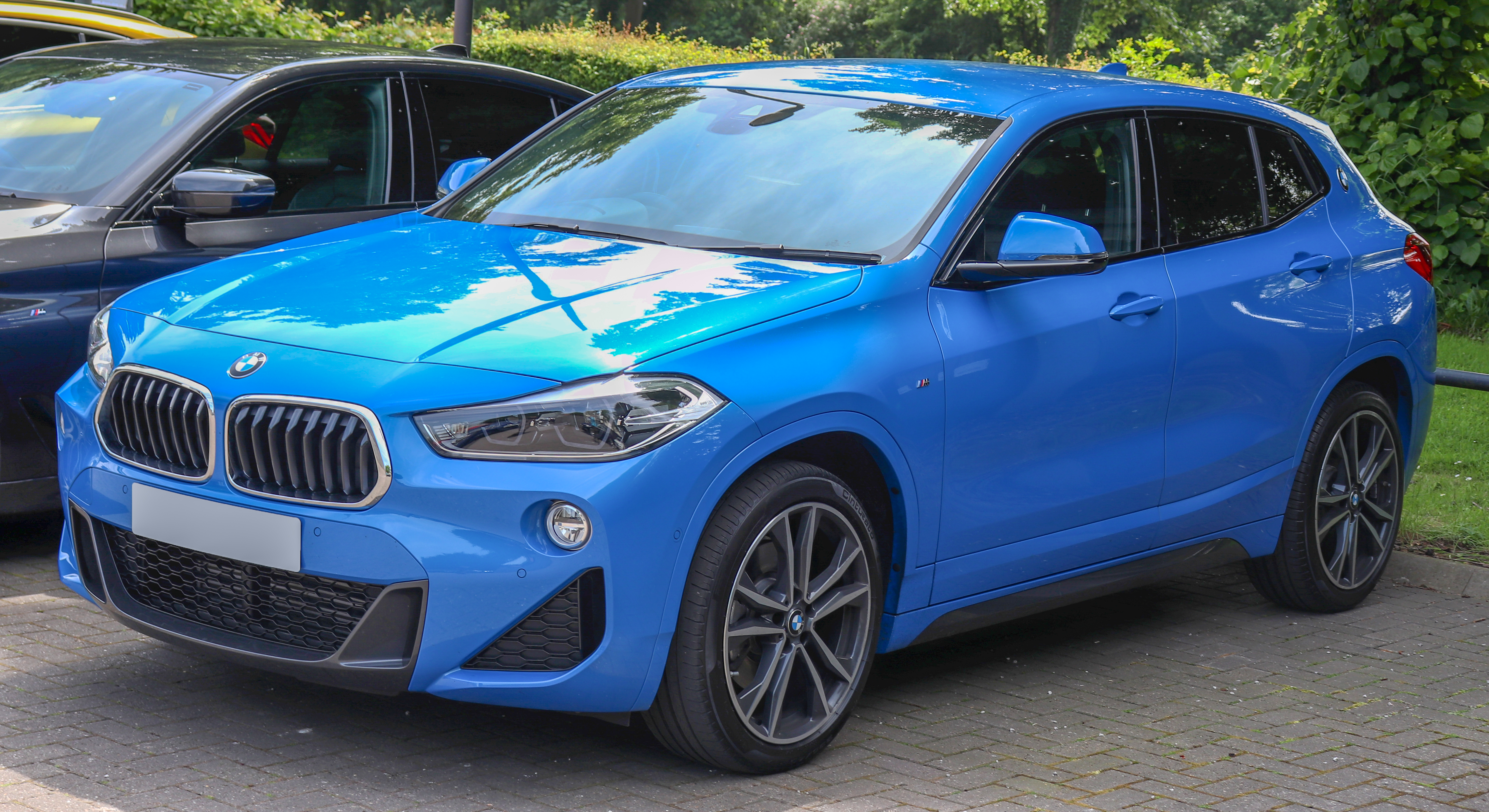 2018 BMW X2 xDrive20d M Sport Automatic 2.0 Taken in Solihull